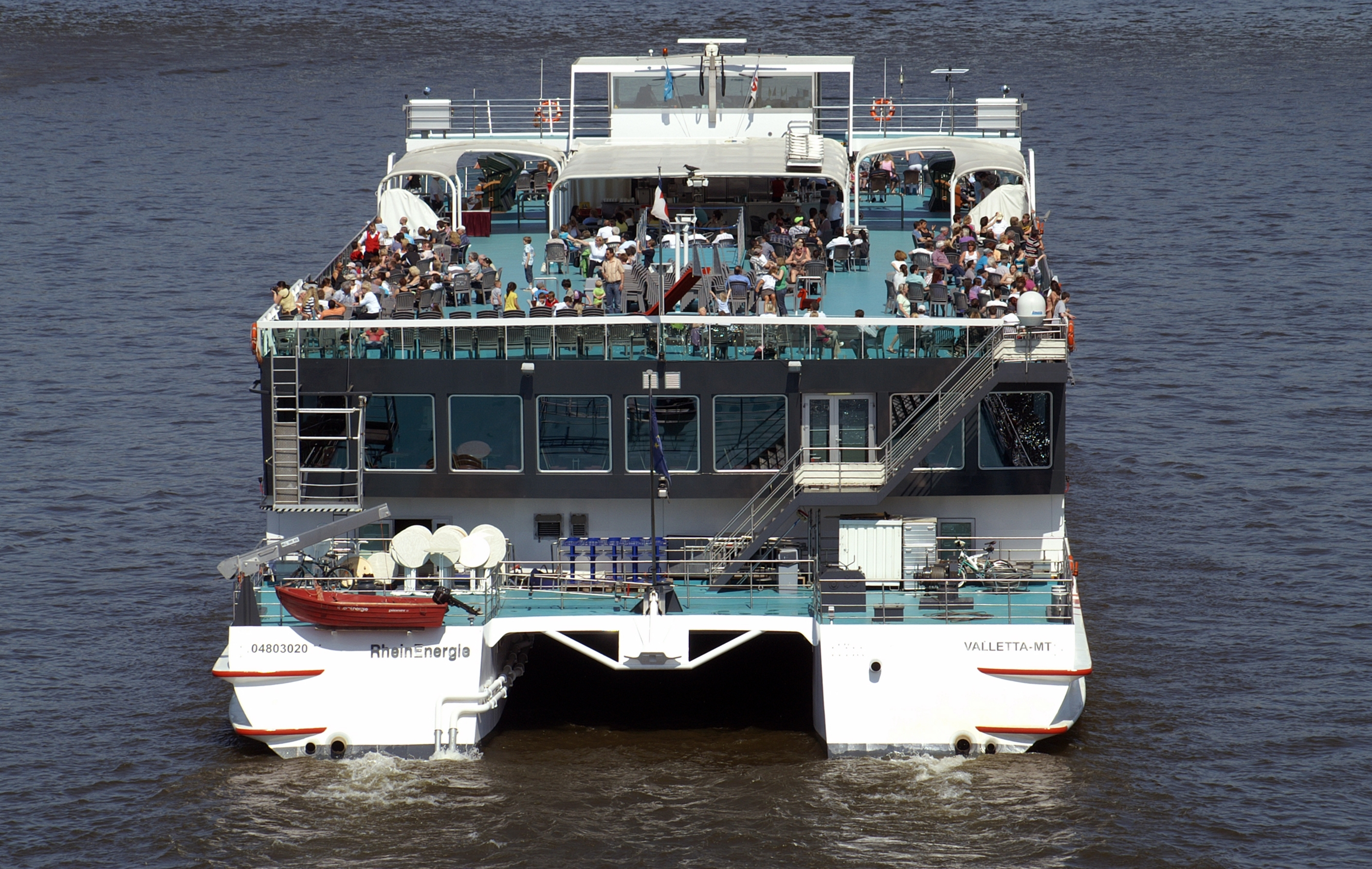 Day trip and Evenship RheinEnergie in cologne.